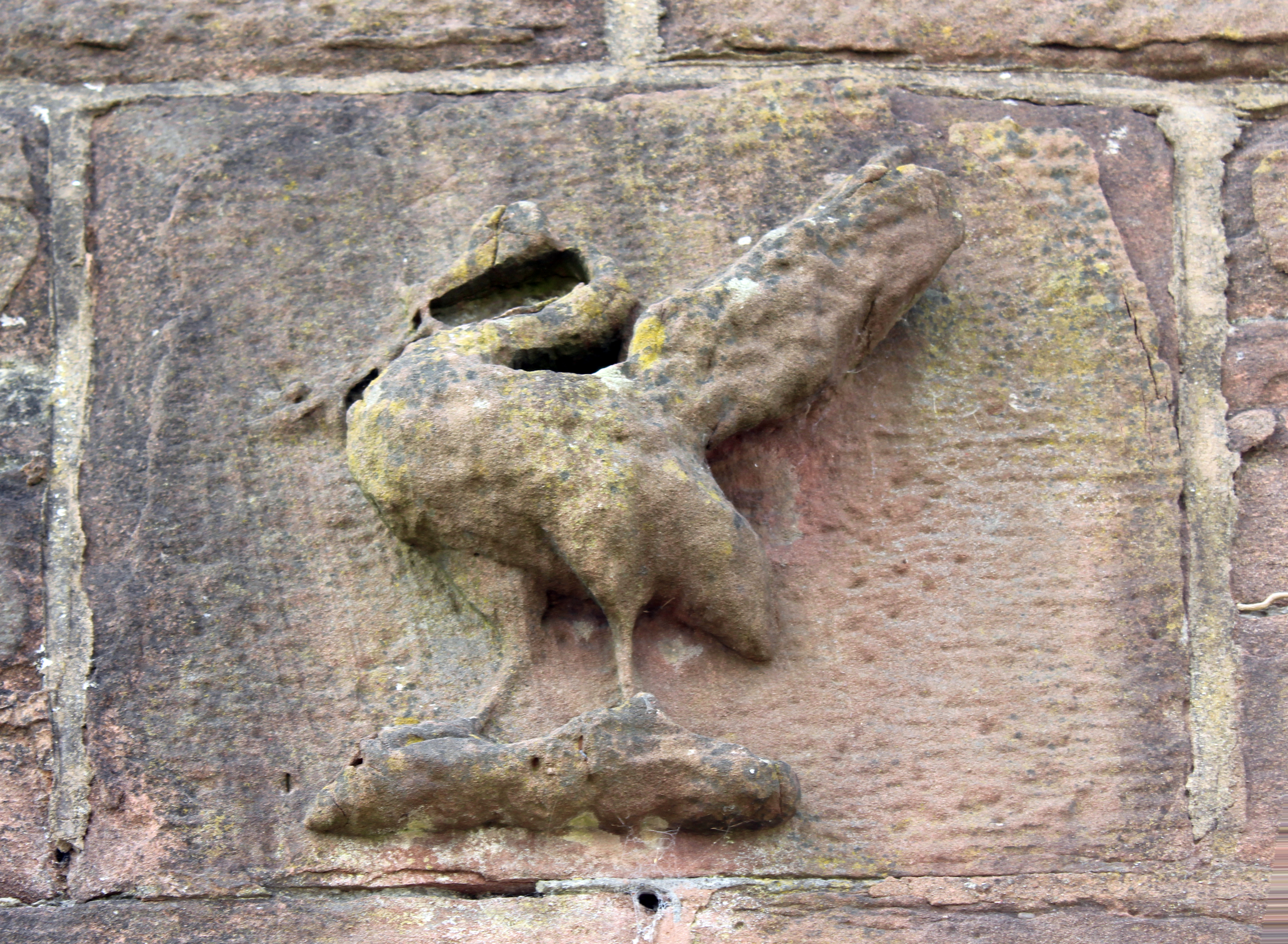 Somewhat weatherworn sandstone relief of a Liver bird over the eastern door of Toxteth reservoir.